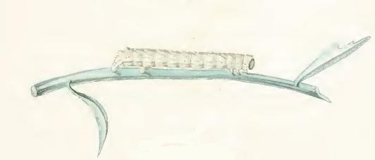 Iconographie et description de chenilles et lépidopteres inédits: Gnophos obfuscata